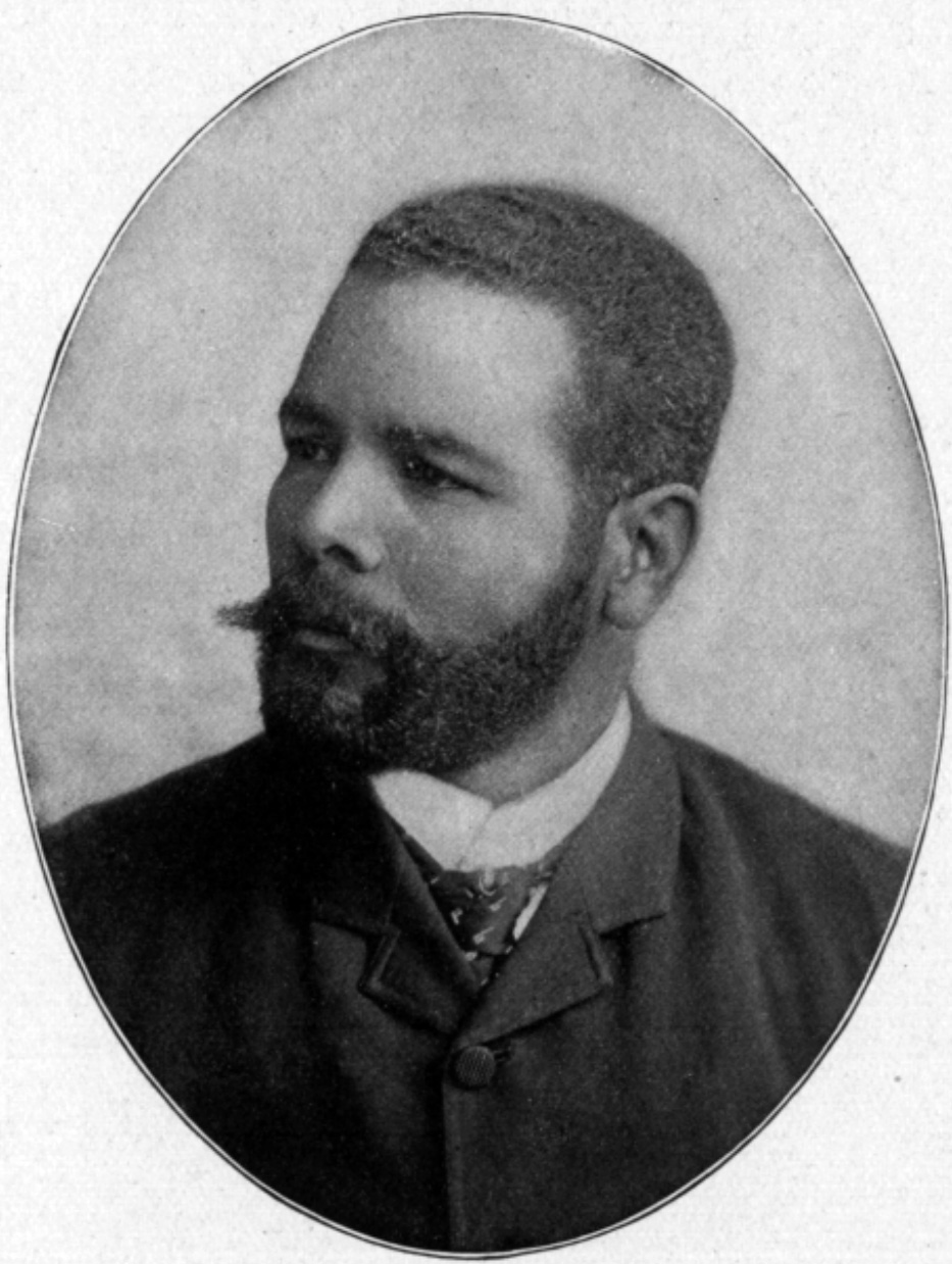 Antonio Maceo Grajales, second-in-command of the Cuban army of independence. Resized version of the original downloaded from the source listed.